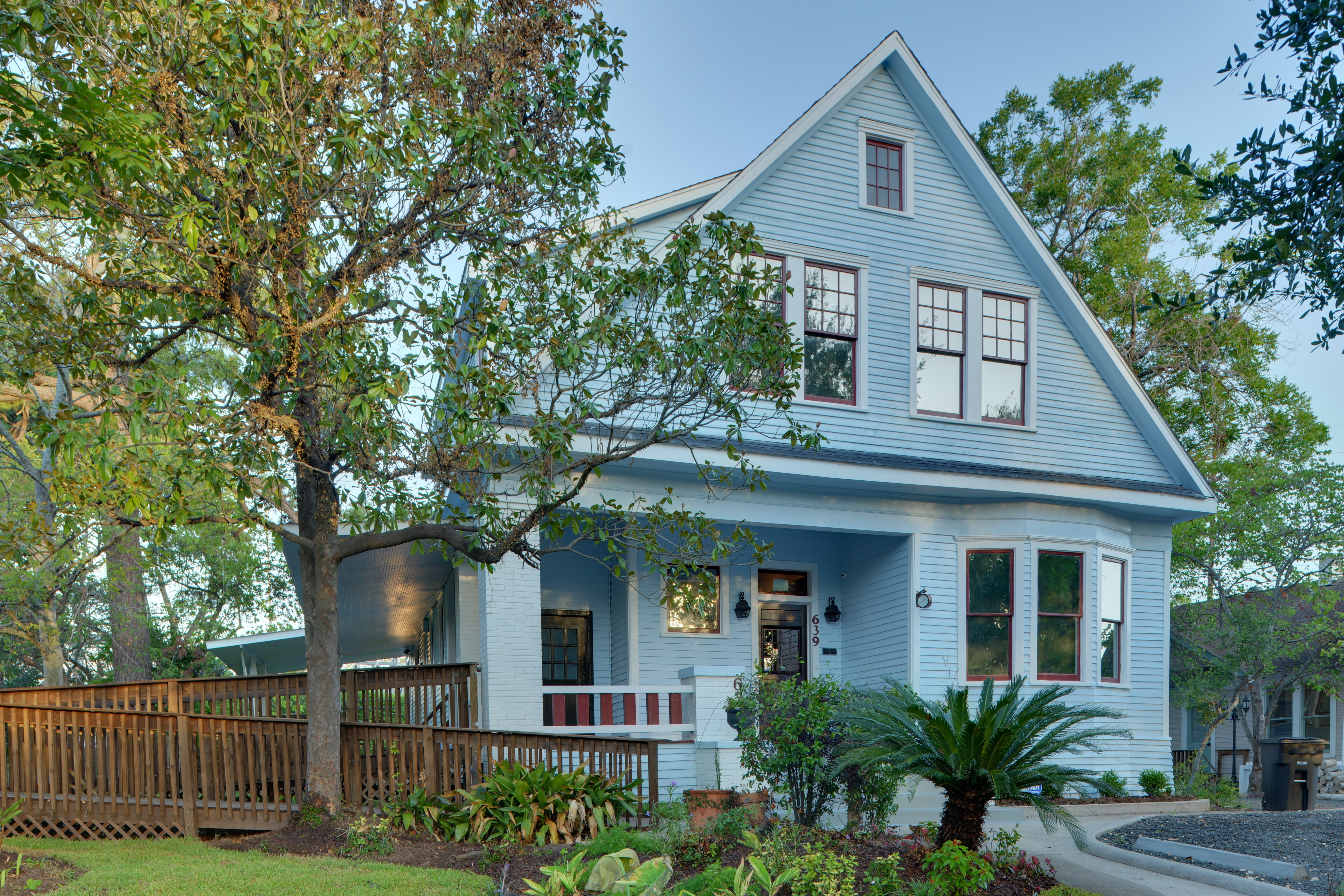 Isbell House at 639 Heights Blvd., Houston (Texas, USA) is listed in the National Register of Historic Places, United States Department of the Interior.